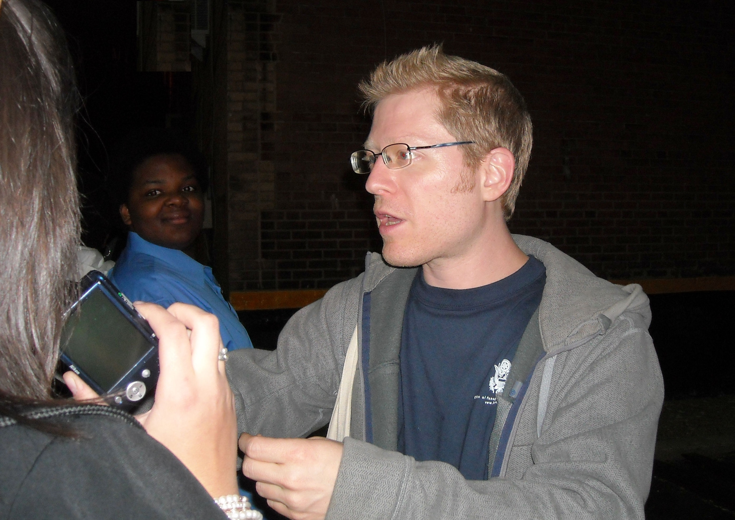 Anthony Rapp greeting fans at the stage door following his performance in the Broadway show, Rent, June 7, 2009.